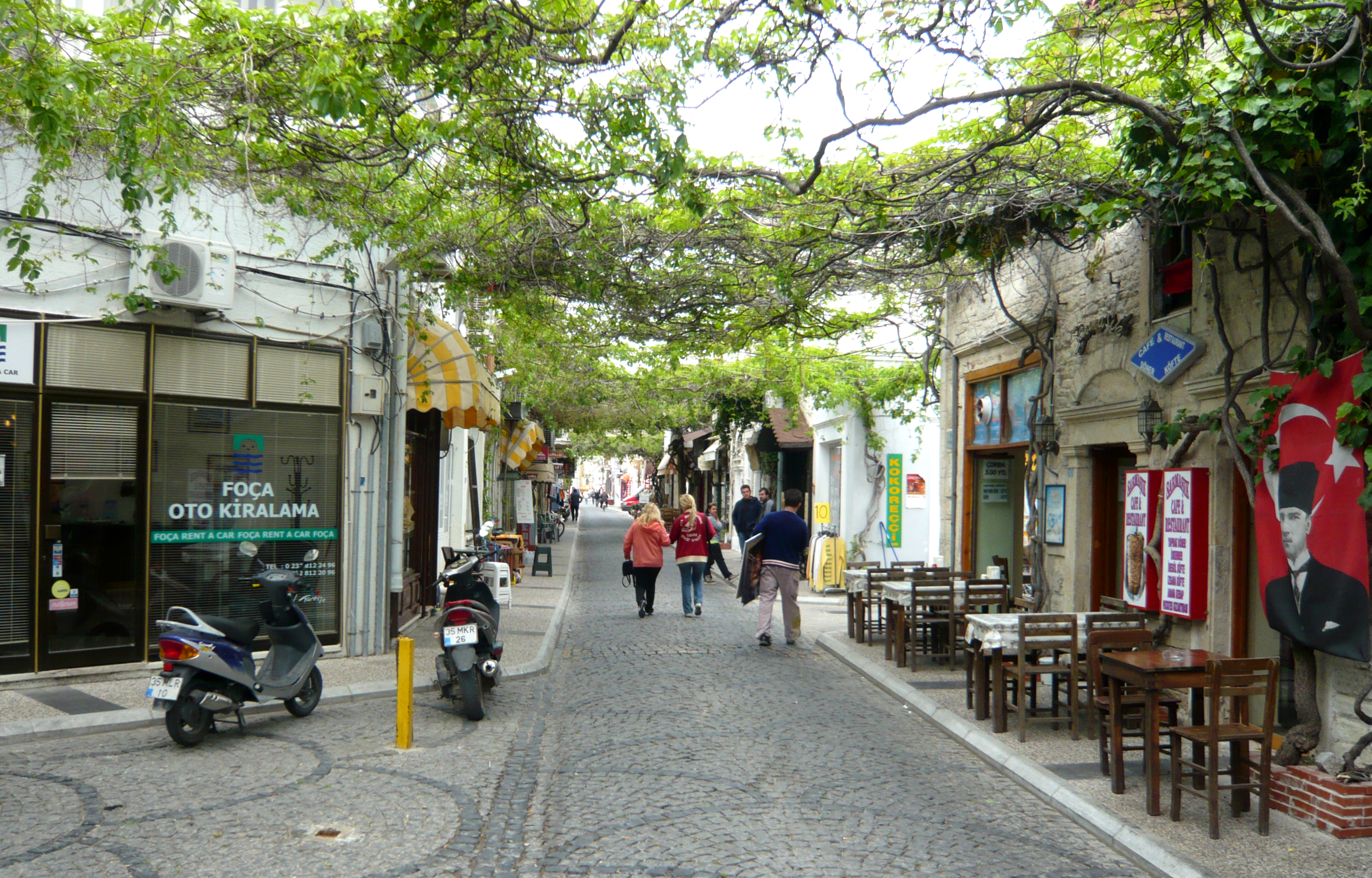 Behind the Harbor of Foça, Turkey